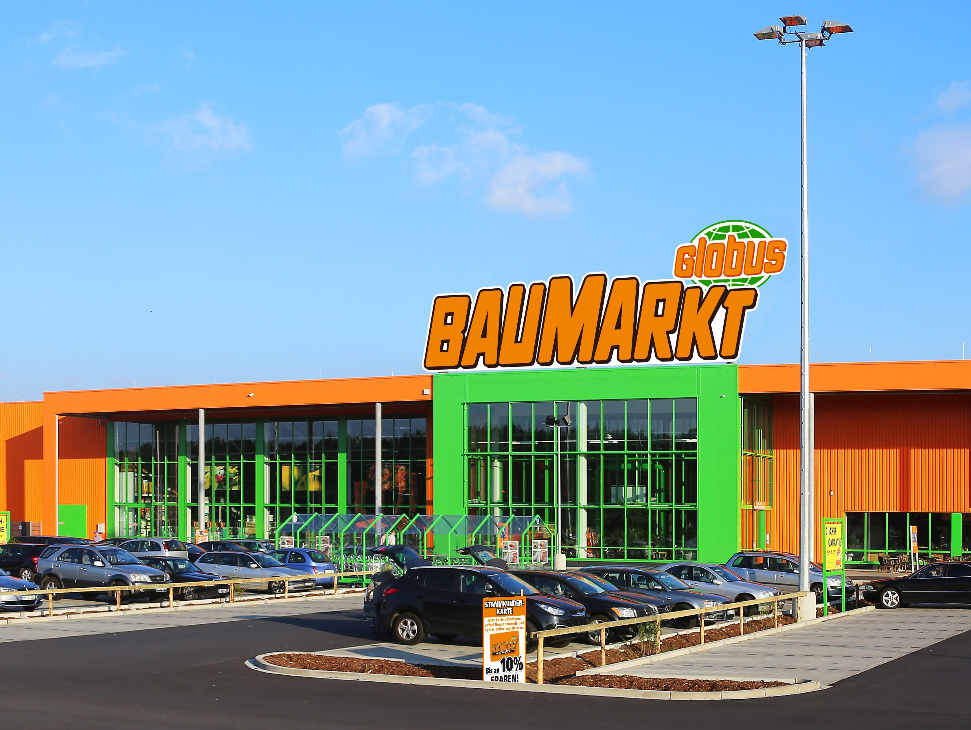 Globus Baumarkt in Kaltenkirchen